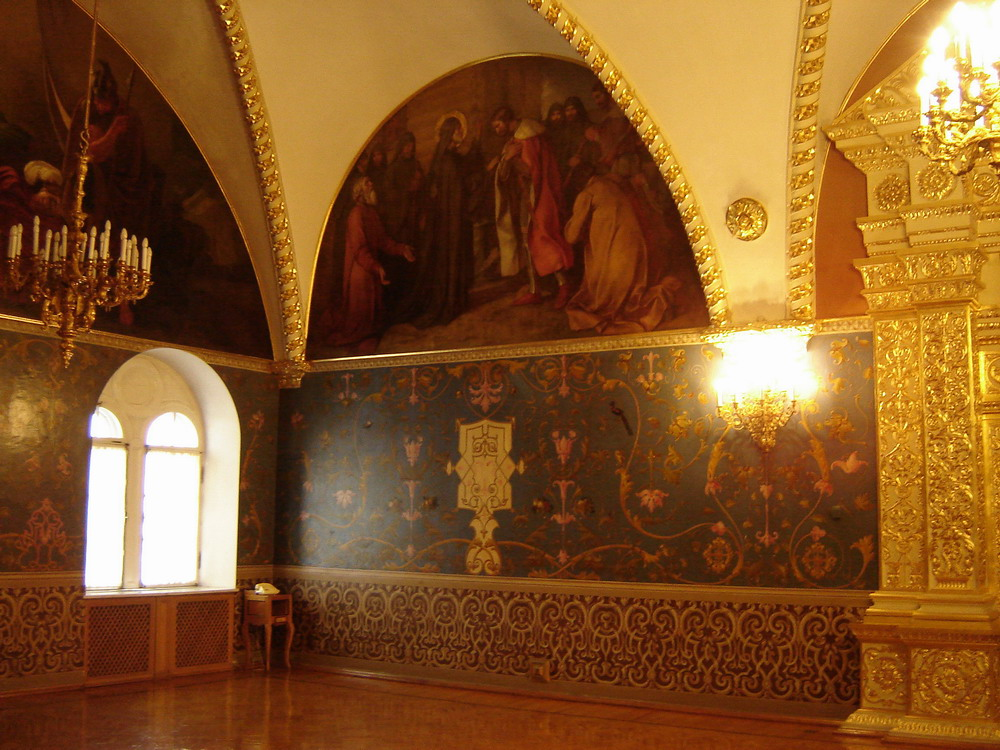 Palace of Facets interior. Moscow Kremlin, Russia.